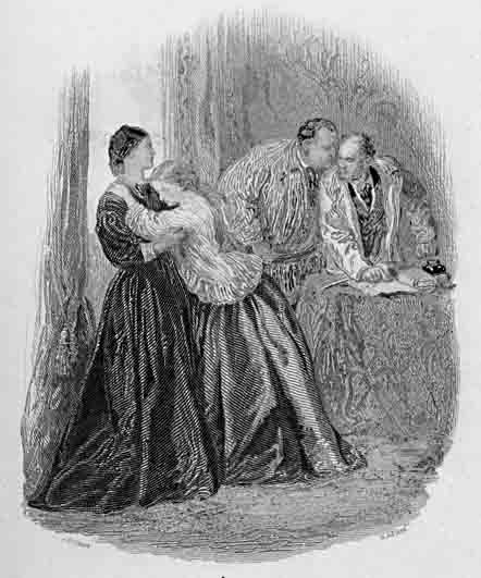 The woman in white John Gilbert frontispiece to the 1861 one volume Sampson Low edition